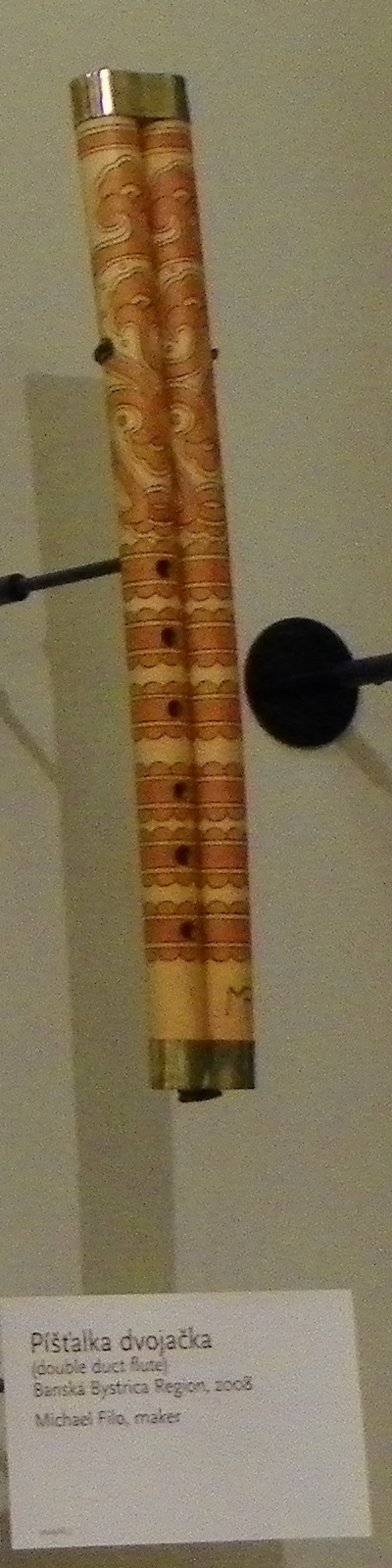 A píšťalka dvojačka (double duct flute) Photograph of musical instruments taken at the Musical Instrument Museum (Phoenix) on 2011-04-26.